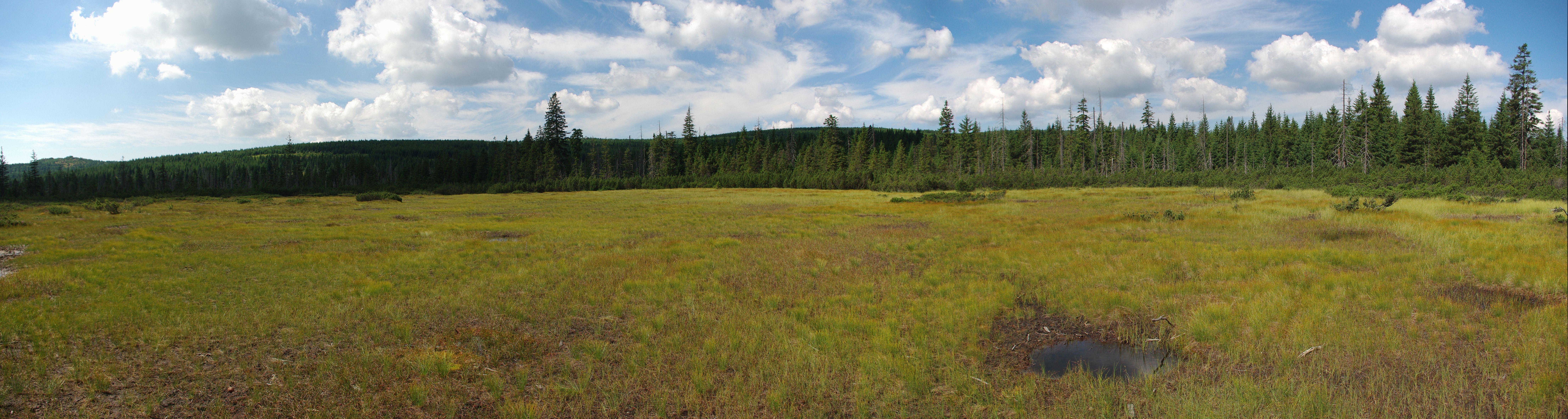 National nature reserve Rašeliniště Jizerky in Jablonec nad Nisou District, Czech Republic